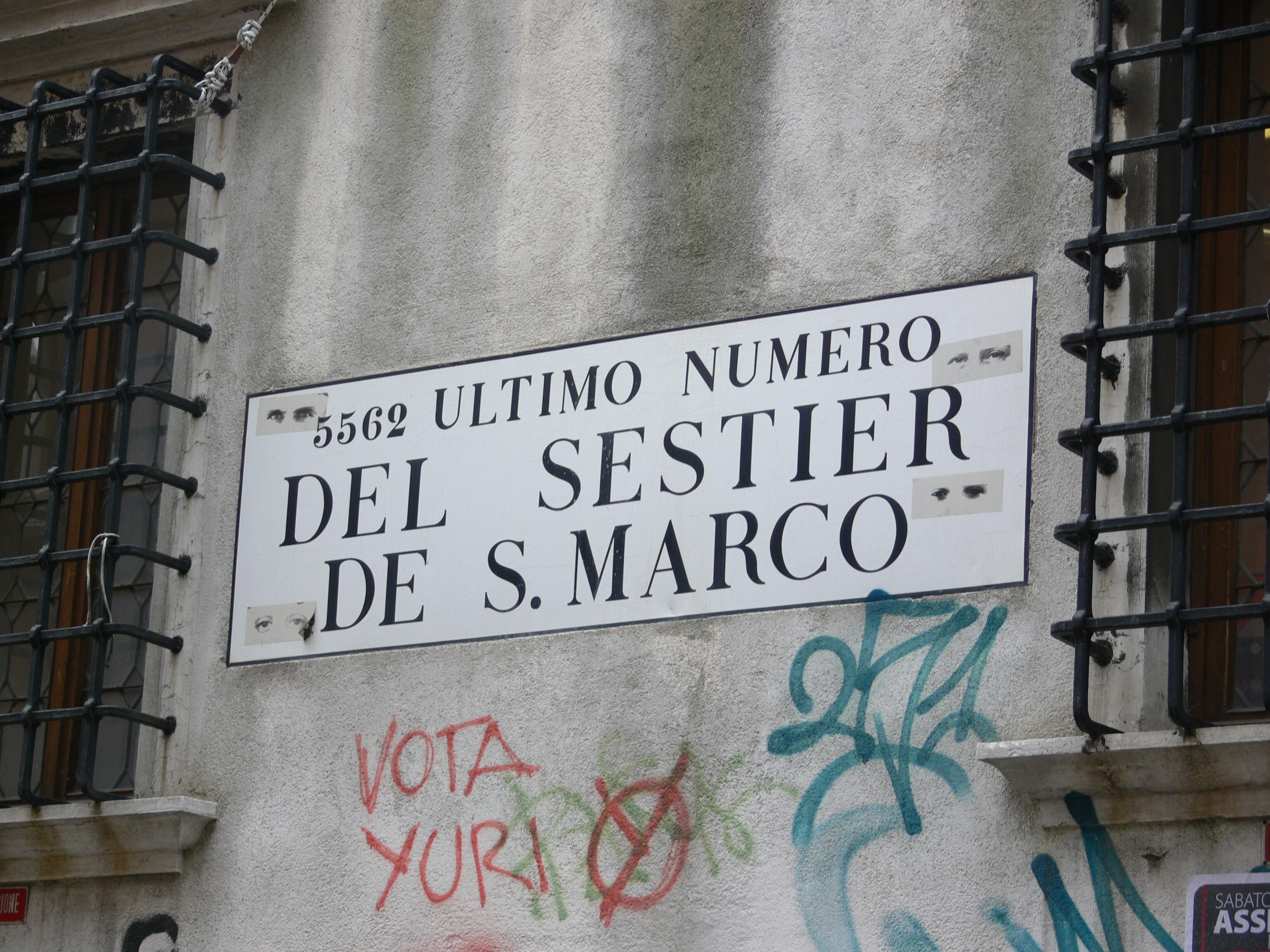 House number of the Fondaco dei Tedeschi, Venezia, Italy